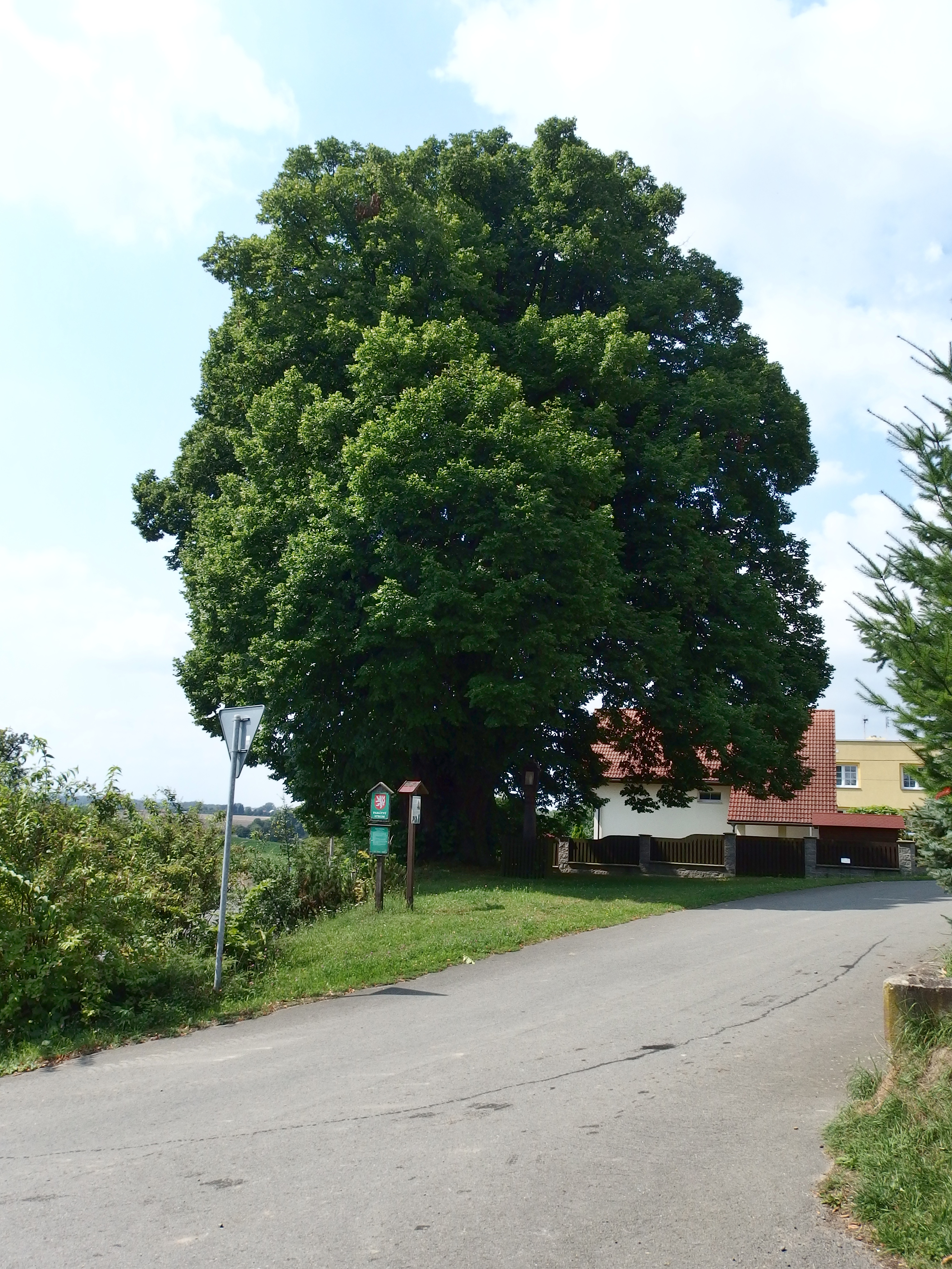 Rouské, Přerov District, Czech Republic.